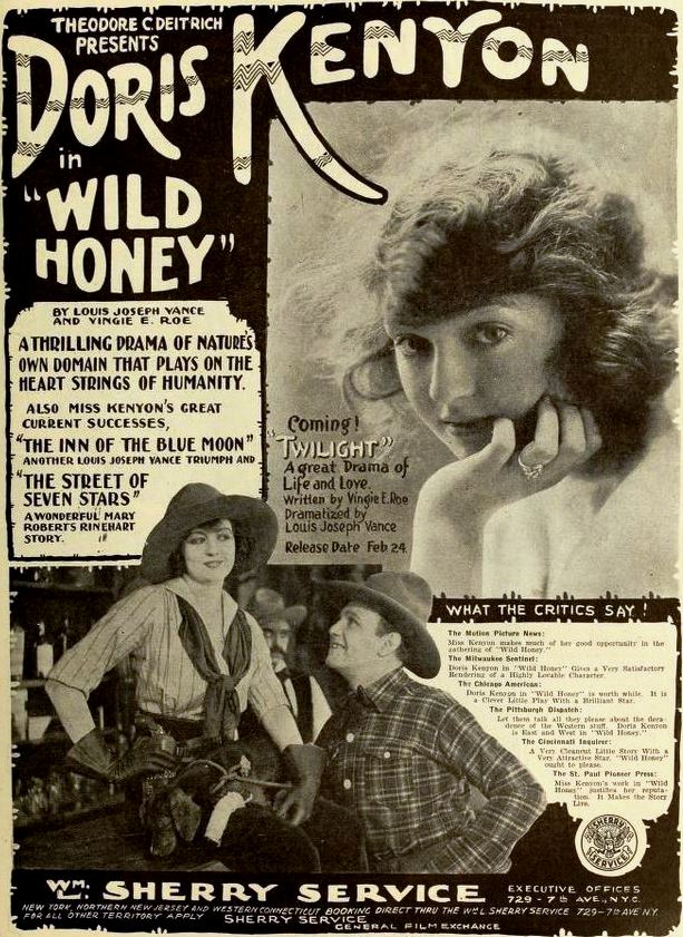 Ad for the American film Wild Honey (1918) with Doris Kenyon and Edgar Jones (1874 – 1958), on page 849 of the February 15, 1919 Moving Picture World.